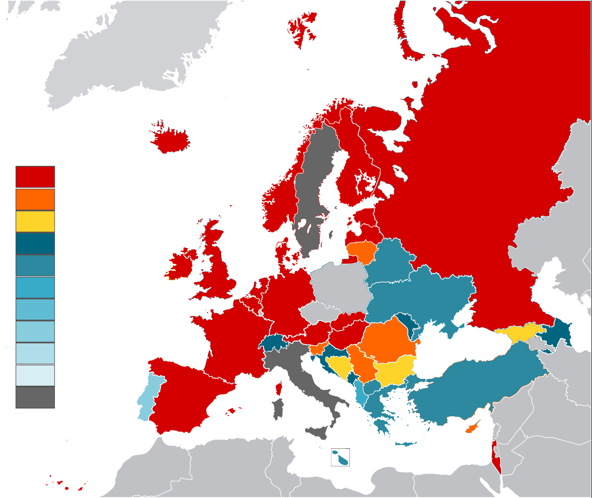 Picture is describing number of points given to song Euphoria, Sweden entry in ESC 2012 by participant countries. The points are represented by colours - 12 red, 10 orange, 8 yellow, 7 to 1 - various tones of blue, 0 - dark gray.